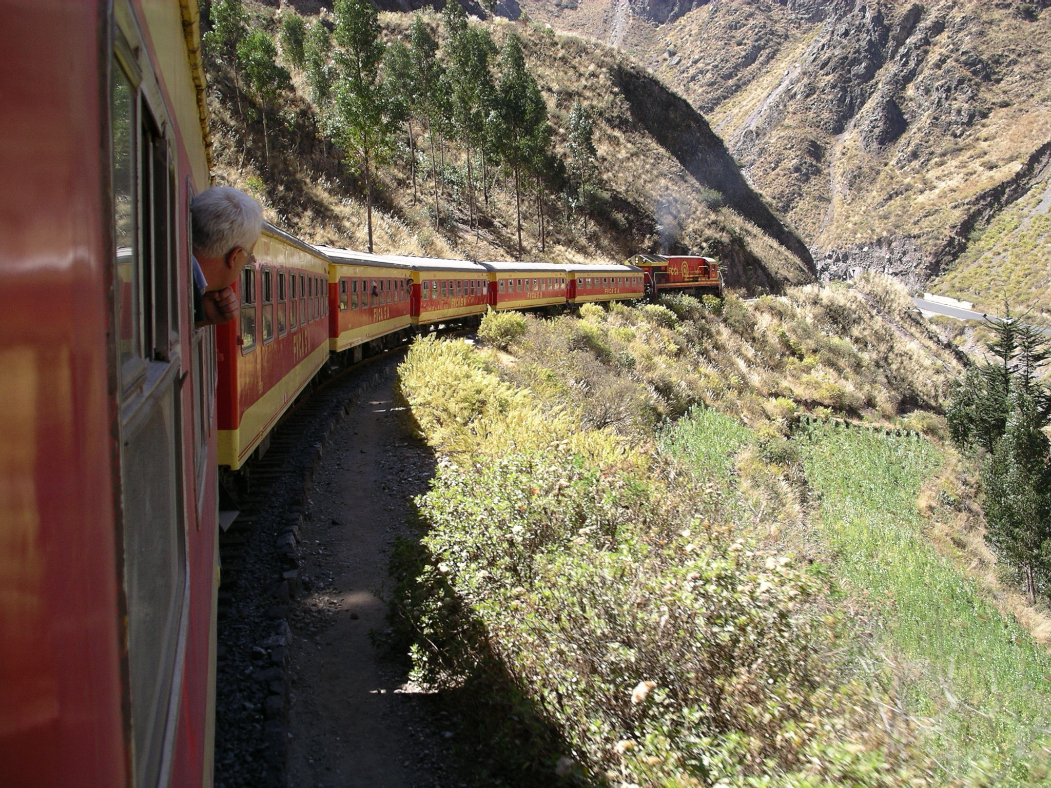 Train Track of the line "Lima - Morococha - Abra Anticona (Ticlio) - La Oroya - Huancayo" in Peru. This picture it taken about at 2500m above sea level going up from Lima, befor reaching the mining village of Morococha.